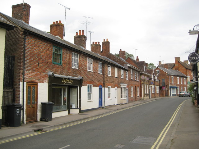 Pewsey: The High Street Every second upstairs window in the terrace on the left is a false one. The High Street is also the B3087 to Burbage.